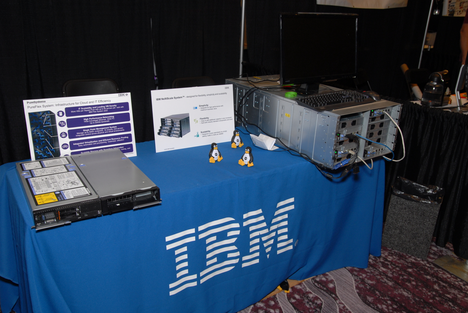 Southern California Linux Expo 2014 IBM NeXtScale System